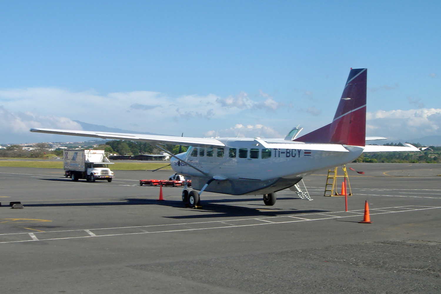 SANSA regional airplane at Juan Santamaria International Airport (SJO)